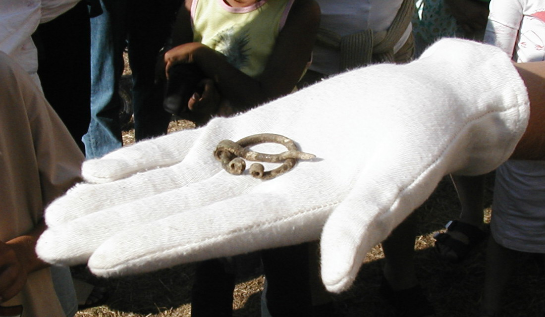 A Viking age round buckle (cloak pin, penannular brooch, ring brooch) found at Fröjel excavation (dated to the 10th century)